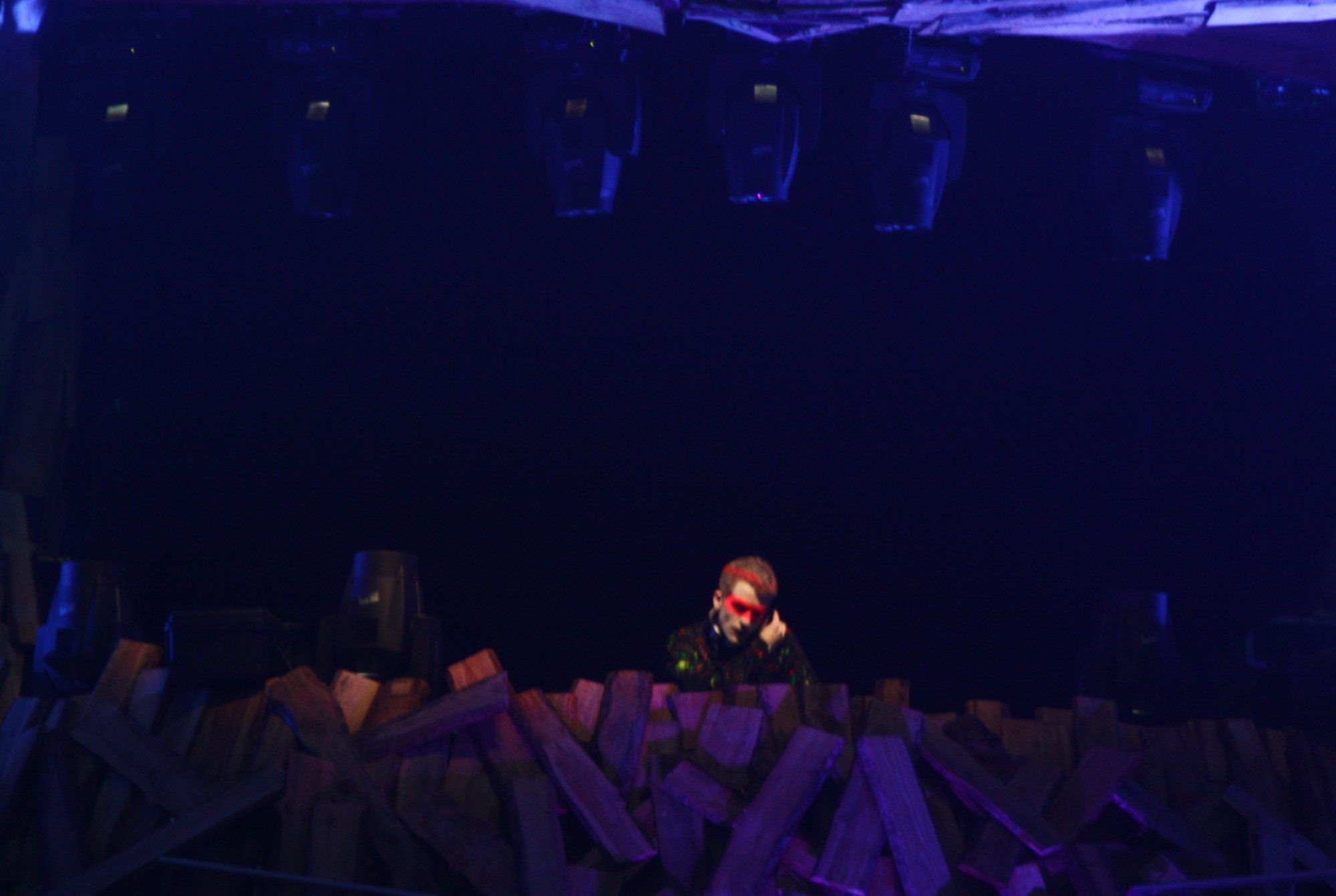 A-Lusion live at Qlimax 2009